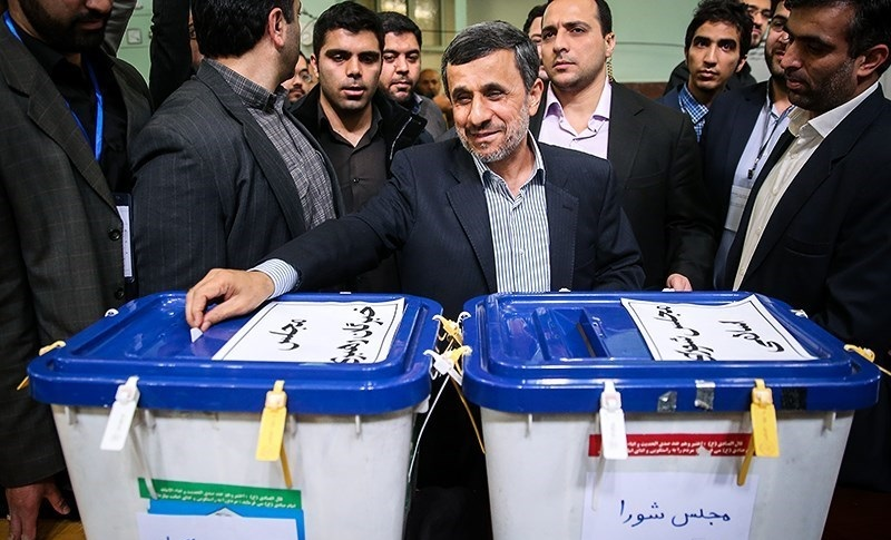 Mahmoud Ahmadinejad casting his vote in 2016 election